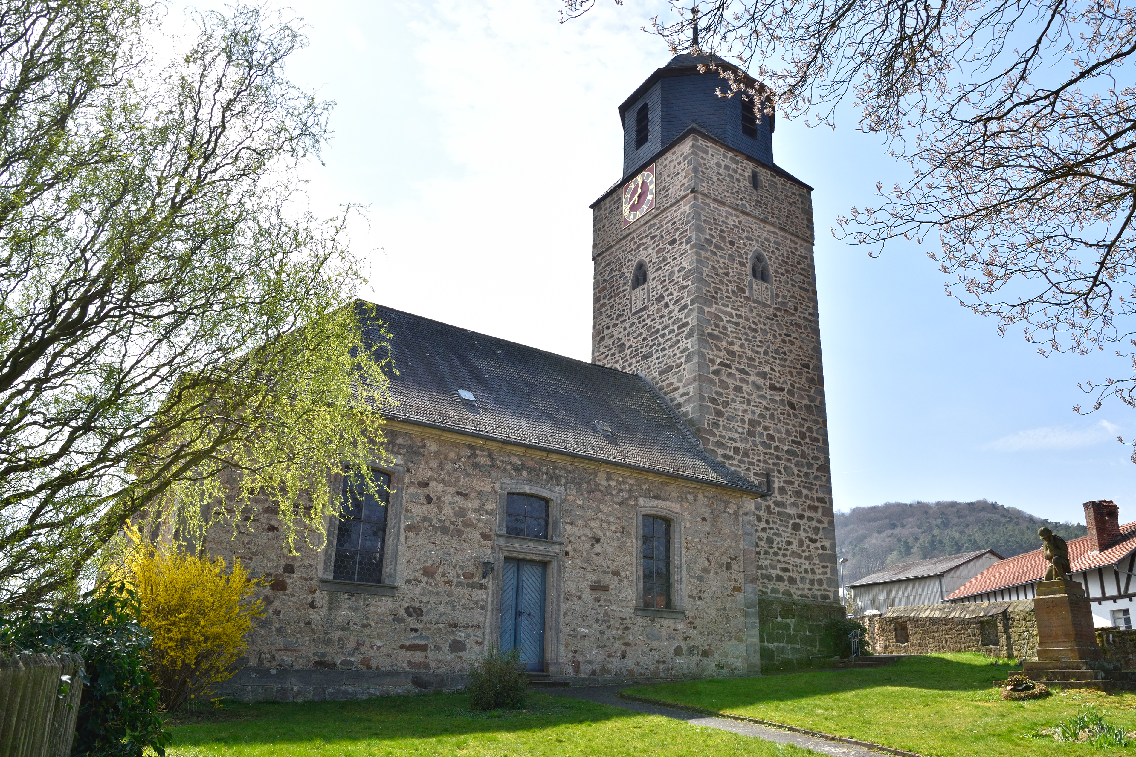 Evangelic St. Martin's Church in Wehrda